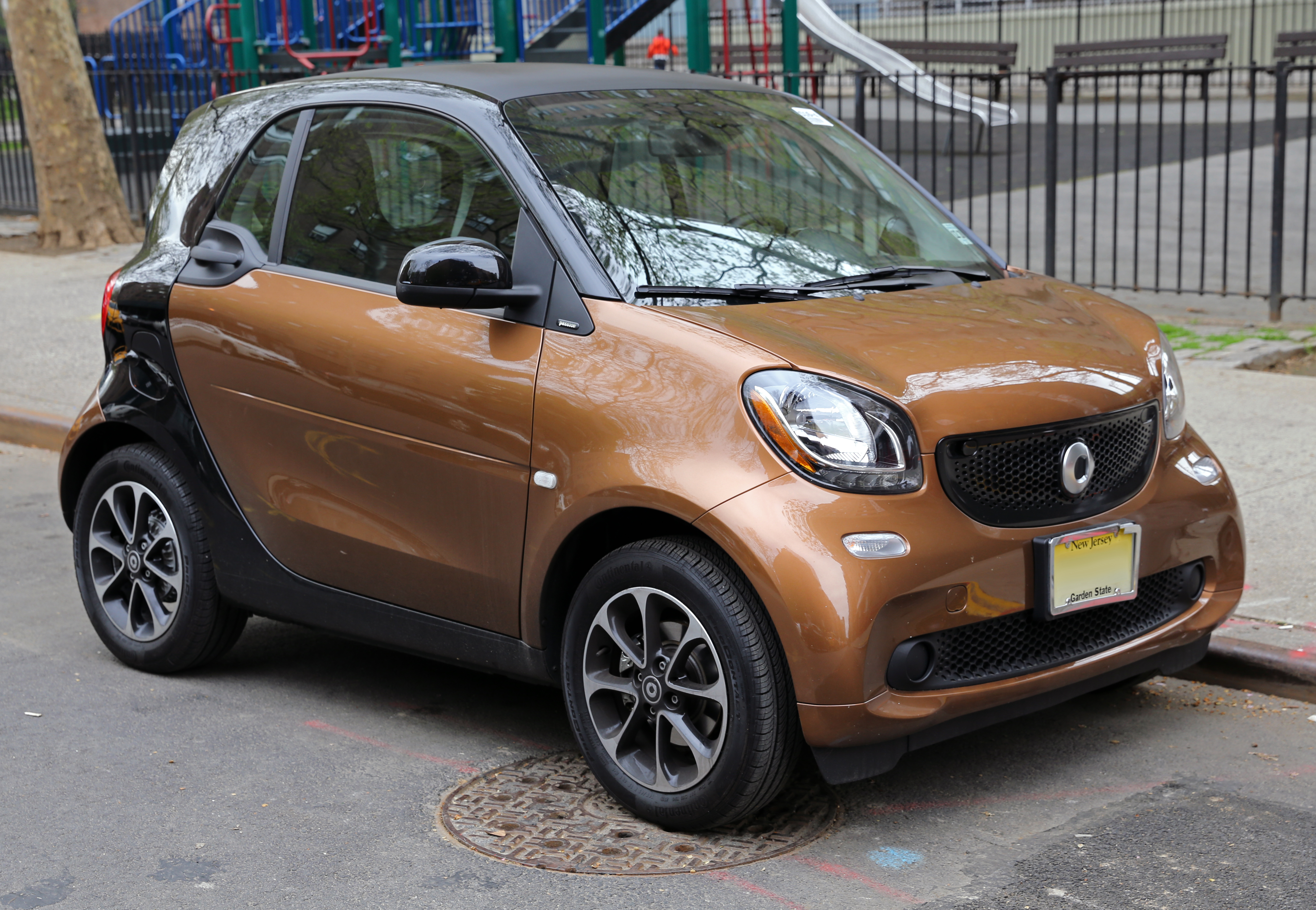 A 2016 Smart Fortwo Passion coupé, US spec version.